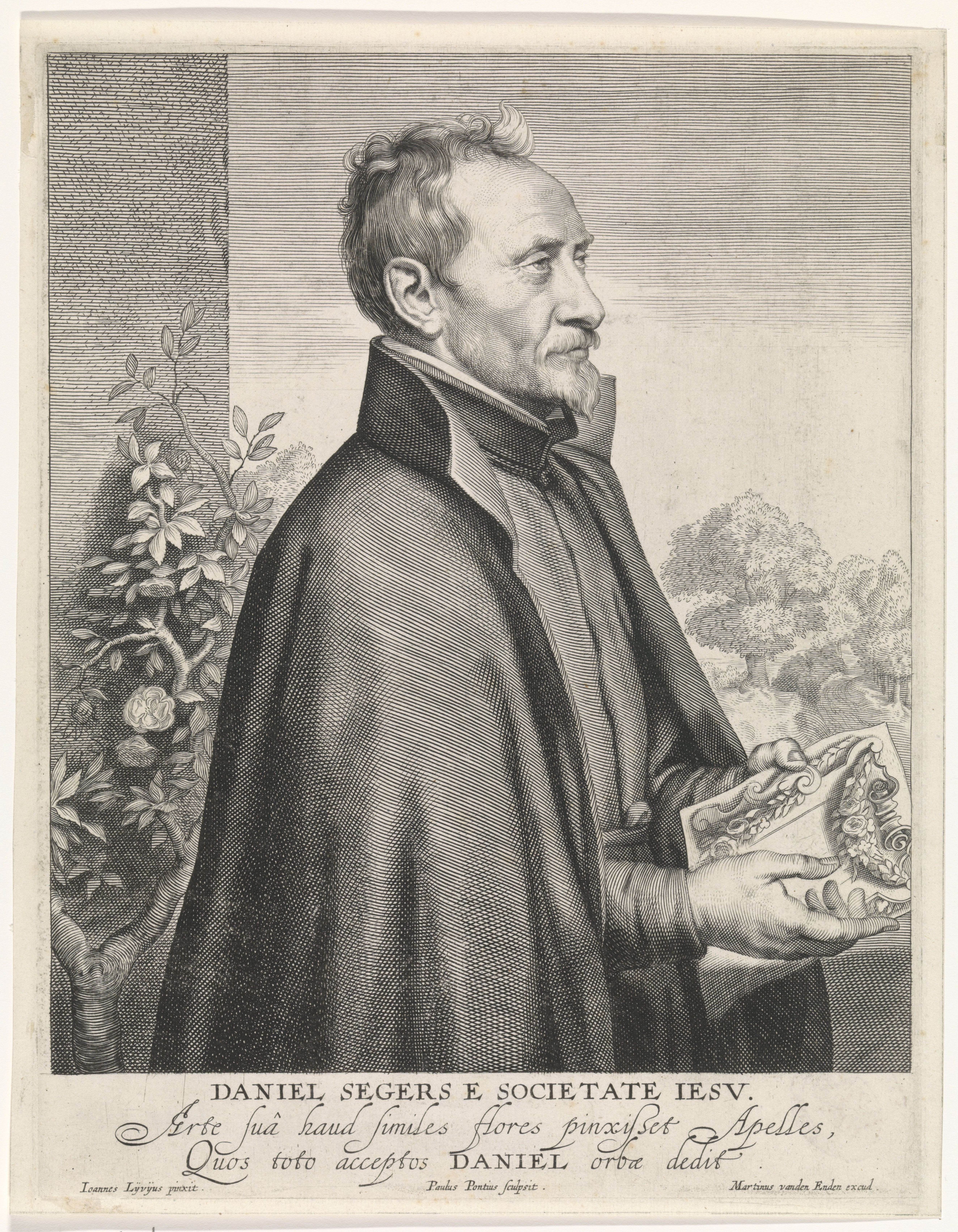 Portrait of Daniel Seghers (1590-1661)